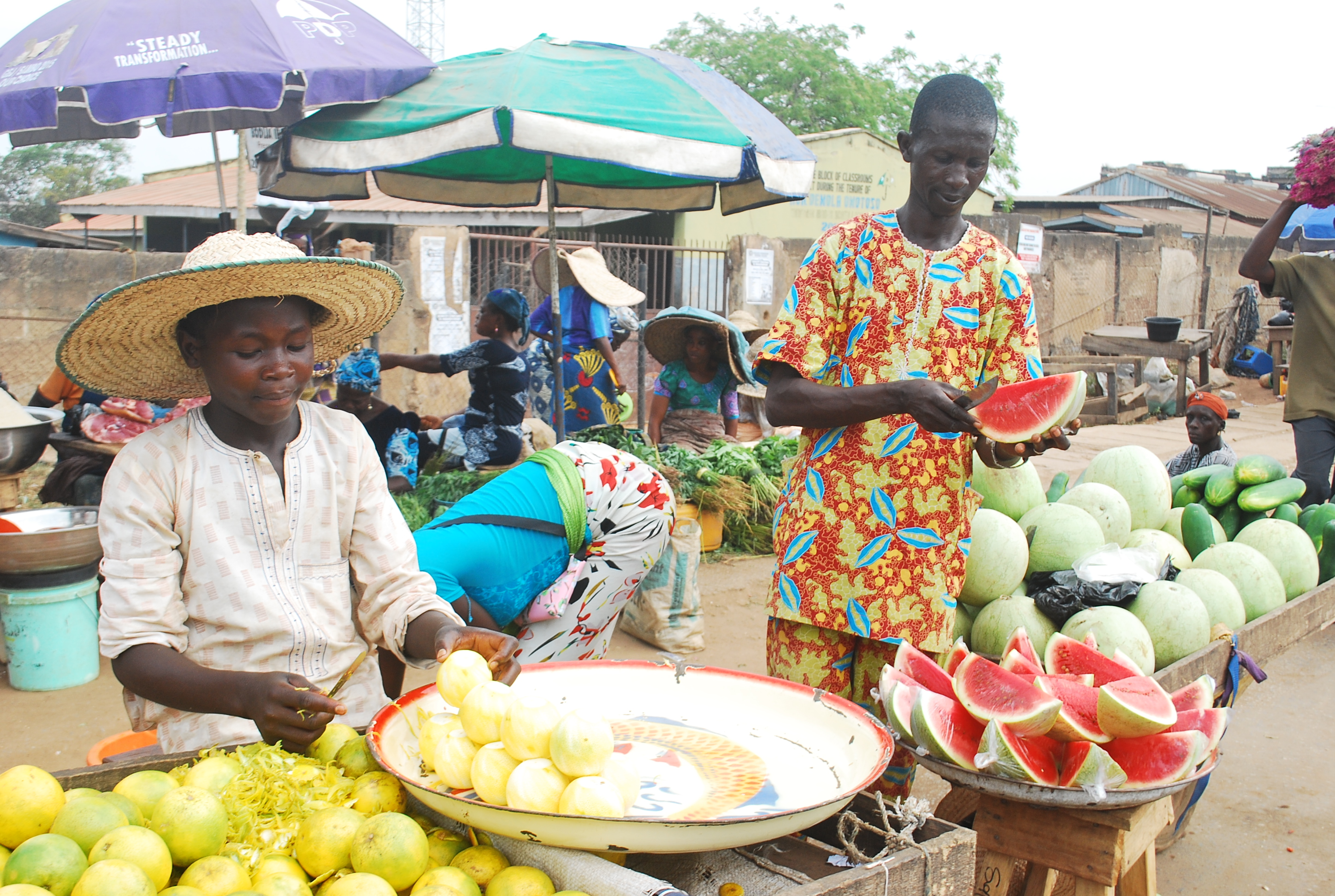 photograph showing fruits sellers at the porpular Bodija market,Ibadan,Oyo state,Nigeria,West Africa